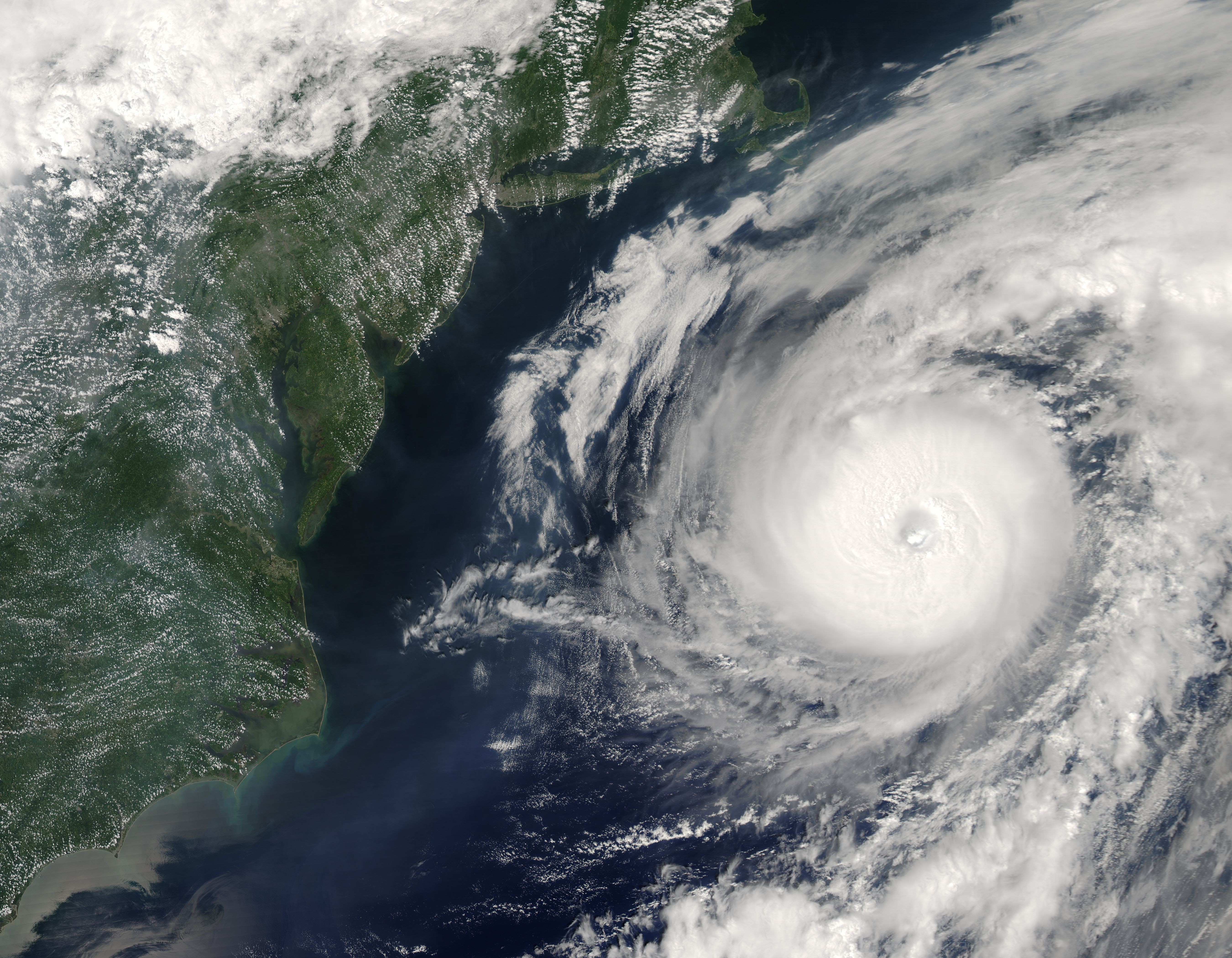 The MODIS instrument onboard NASA's Aqua satellite captured this true-color image of Hurricane Alex off the mid-Atlantic coast on August 4, 2004 at 2:15 P.M. EDT. At the time this image was taken, Alex had maximum sustained winds near 95 mph and was still on an east-northeast course at 18 mph. The Tropical Predicition Center was forecasting Alex to increase in forward speed over the next 24 hours while flucuating in intensity. The MODIS Rapid Response System provides this image at additional resolutions and formats.